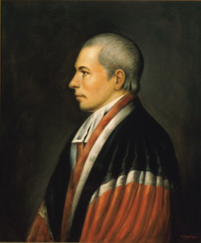 Portrait of William Paterson (1745–1806) when he was a Supreme Court Justice (1793–1806). This image is from a copy (by Stapoko) of the original by Sharples, as such it is derivative of Sharples work (copyright status inherits the original). The original portrait has been etched by Max Rosenthal and printed on p. 181 of The History of the Supreme Court of the United States in 1902;[1] the etchings collected and published by Thomas Addis Emmet (1828–1919) in his Emmet Collection of Manuscripts Etc. Relating to American History,[2][3] donated to the library in 1896.[4]